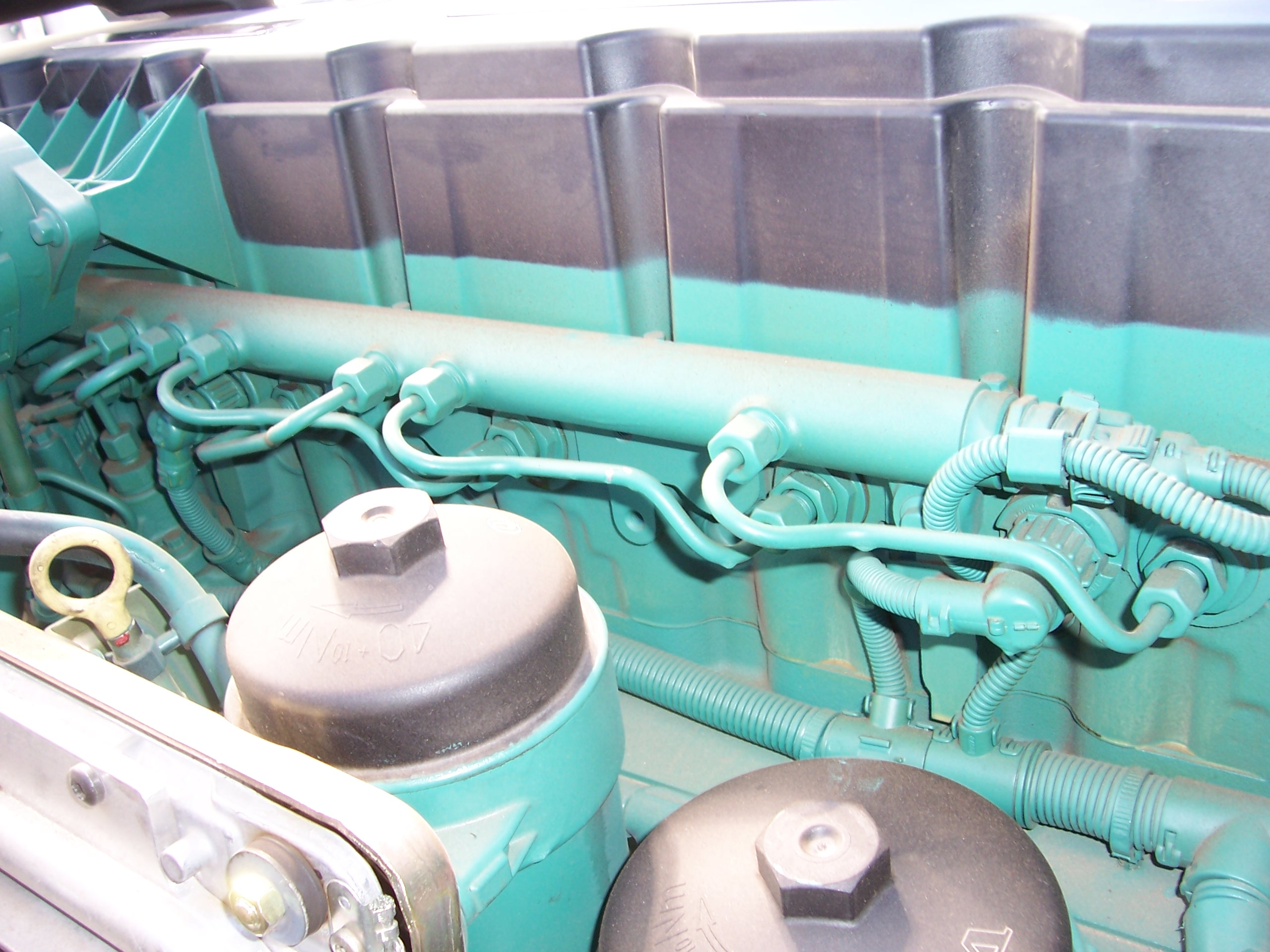 Close up on the "common rail" fuel injection system on Volvo's D7E 7.2L diesel engine.